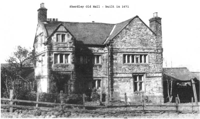 An image of Sherdley Old Hall, built in 1671 in St Helens. Pictured here in 1830. archiving team. As described by St Helens Council Records: "Farmhouse. Dated 1671 on lintel. Stone with slate roof, brick stacks. 2 storeys with attic, 3 bays; 1st bay is narrow and projects under gable, end bay also projects under gable. Drip moulds over ground and 1st ﬂoors, coped gables. Windows have double-chamfered mullions, most of 6 lights but 1st bay has 3-light 1st ﬂoor window and blocked 2-light attic window; 3rd bay has ground ﬂoor cross-window. Porch has recessed door, which is studded and has strap hinges and latch. Signs of blocked entrance to left of 3rd bay window. Returns have similar fenestration."